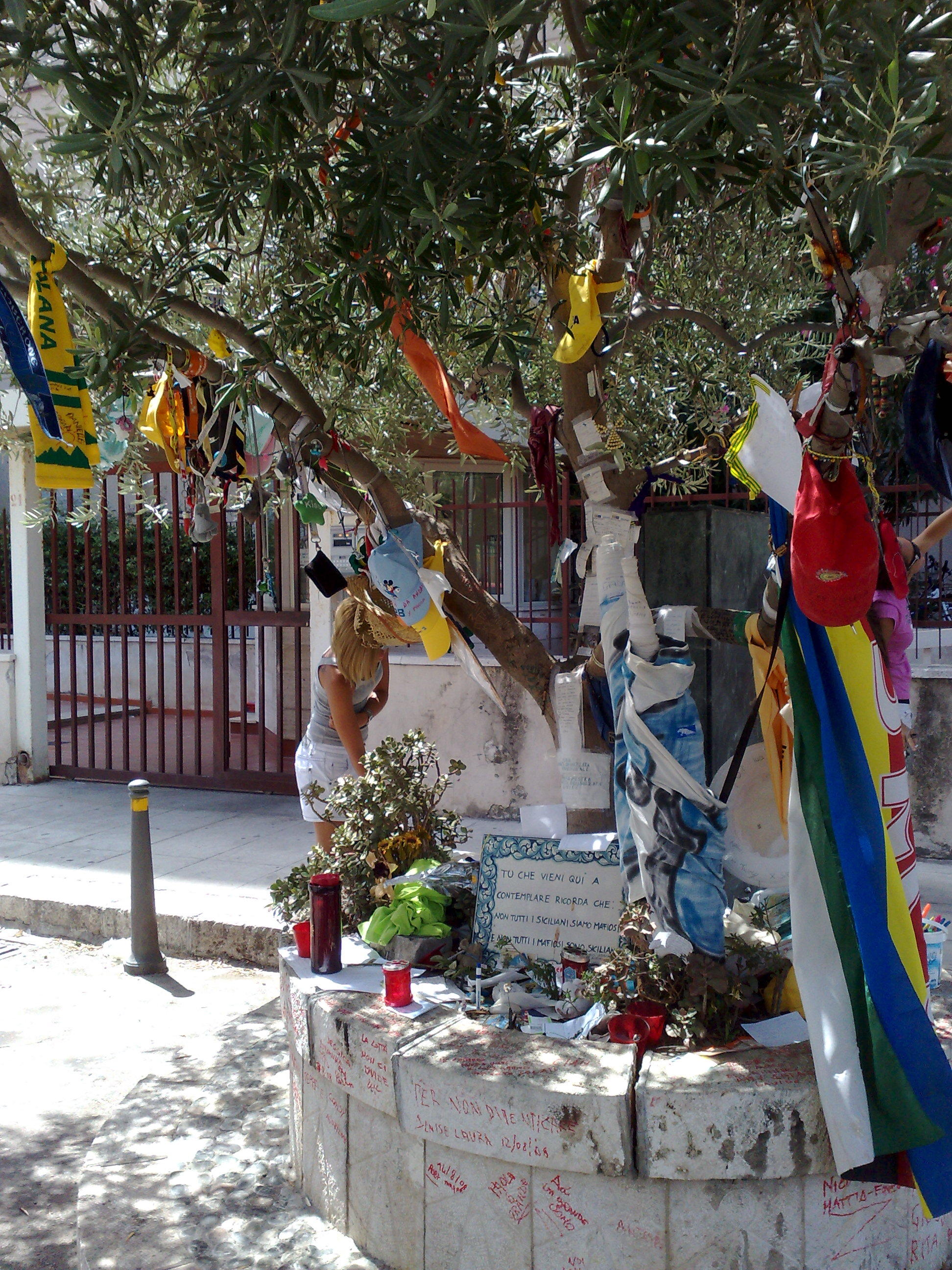 Paolo Borsellino's memorial tree in Via d'Amelio, Palermo. The plaque at the base of the olive tree says: «You that come here to regard, remember: not all Sicilians are mafiosi and not all mafiosi are Sicilians».